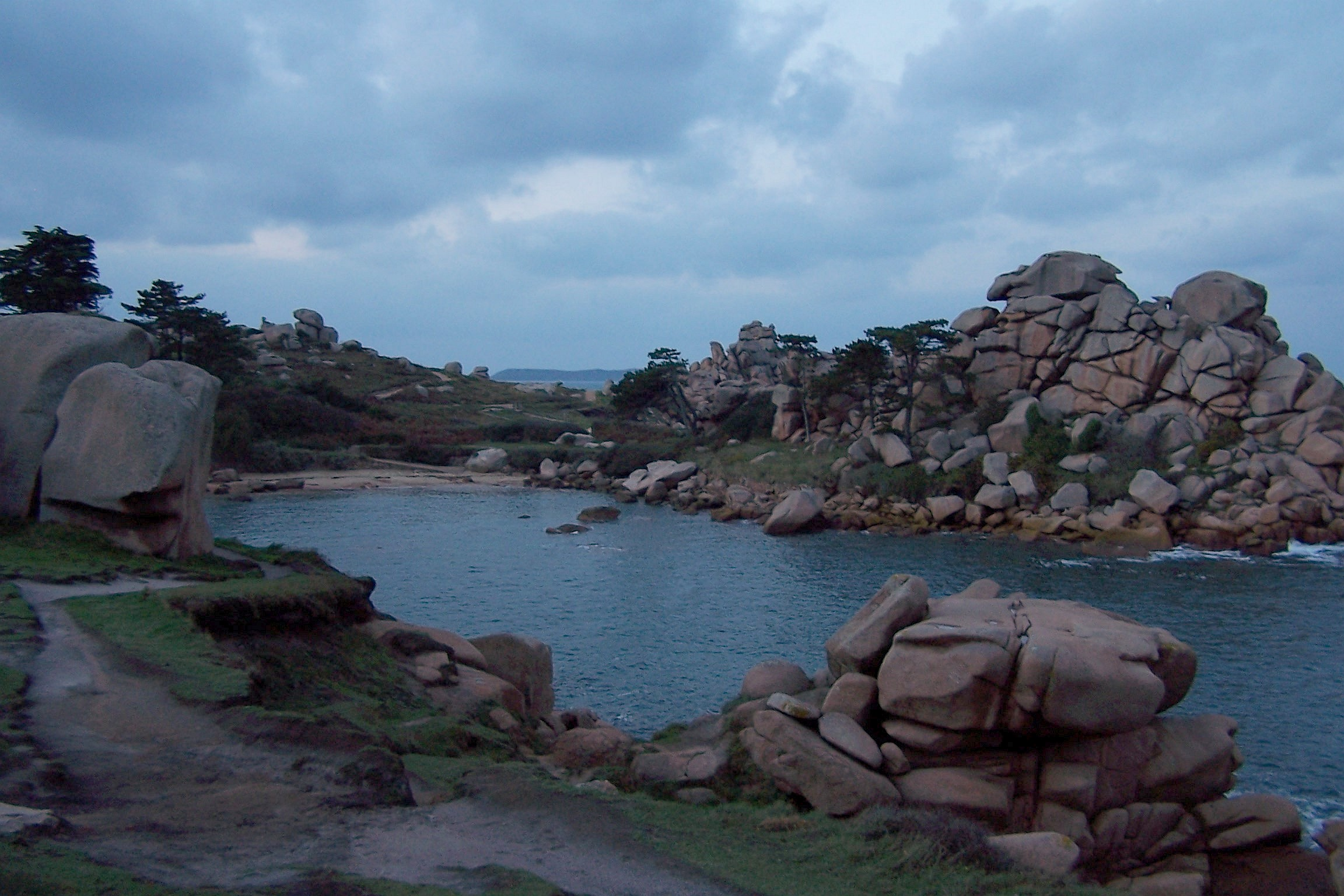 Plage Pors Rolland a Perros-Guirec Ploumanac'h